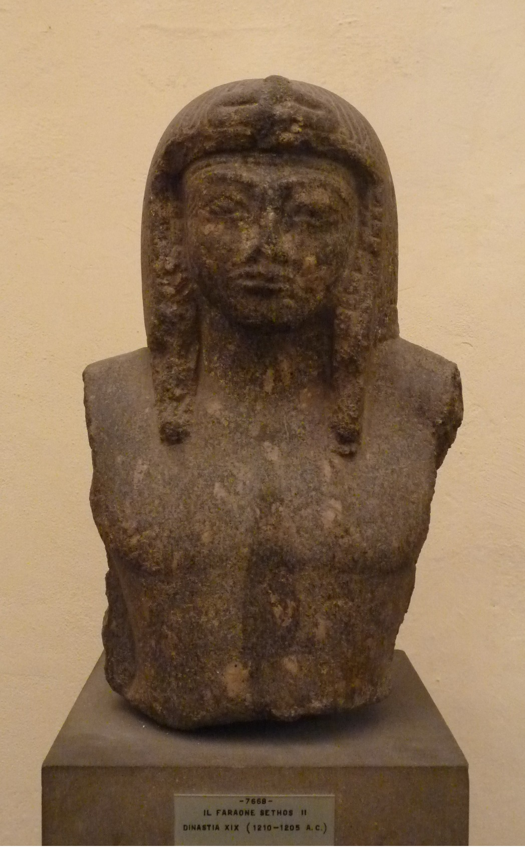 Bust of the pharaoh Seti II. Granite, unknown provenience, 19th dynasty, New Kingdom. Florence, Museo archeologico nazionale, n. 7668.